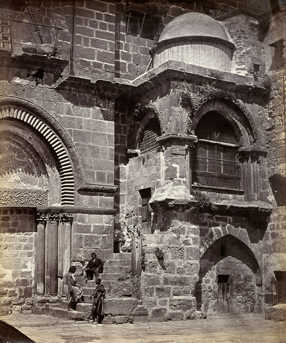 Porch of the Church of the Holy Sepulchre, Jerusalem. 1859. Large-format albumen print. 31 x 25,5 cm. Signed by the photographer in the negative in lower right corner; annotated in ink on the verso.